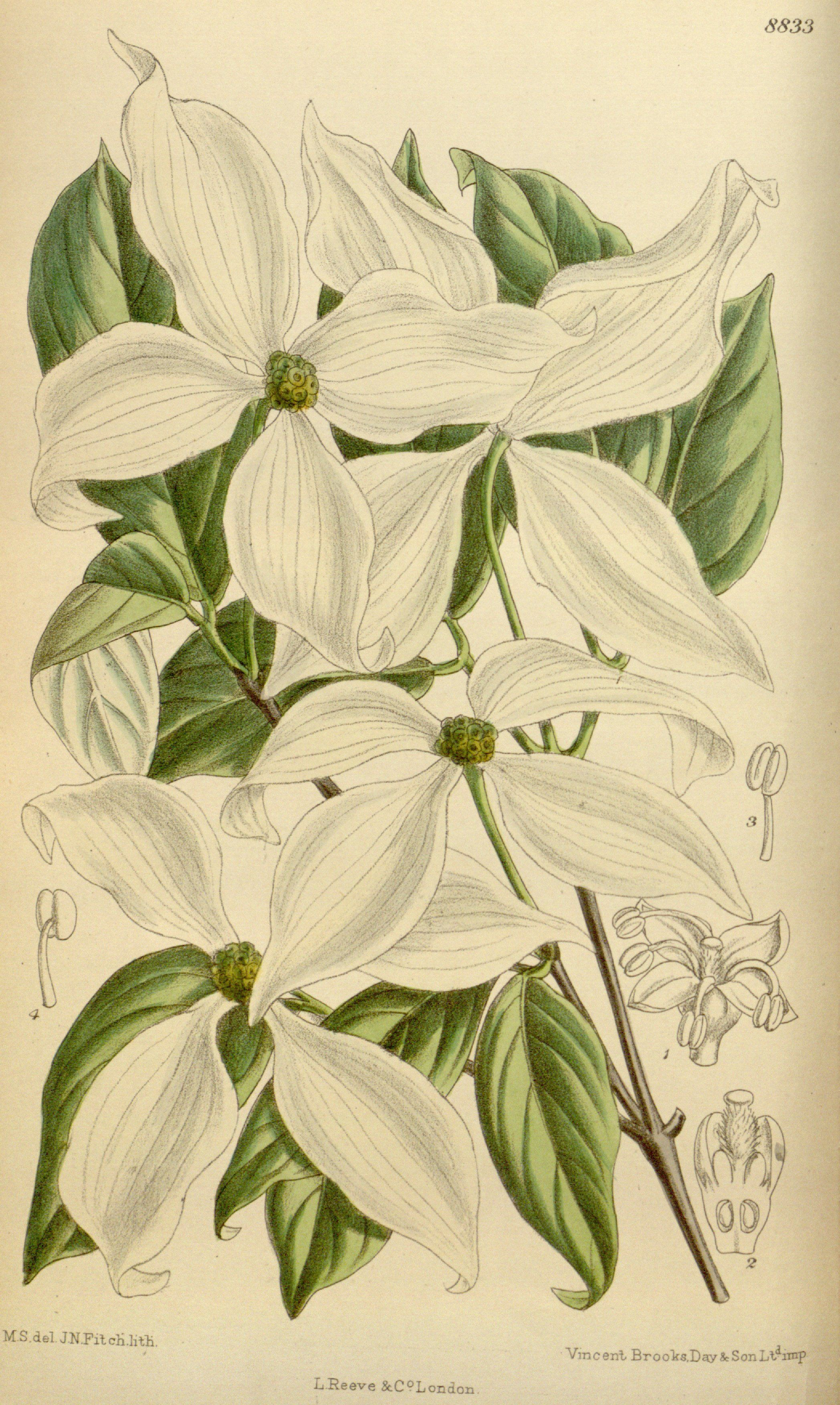 Cornus kousa, Cornaceae